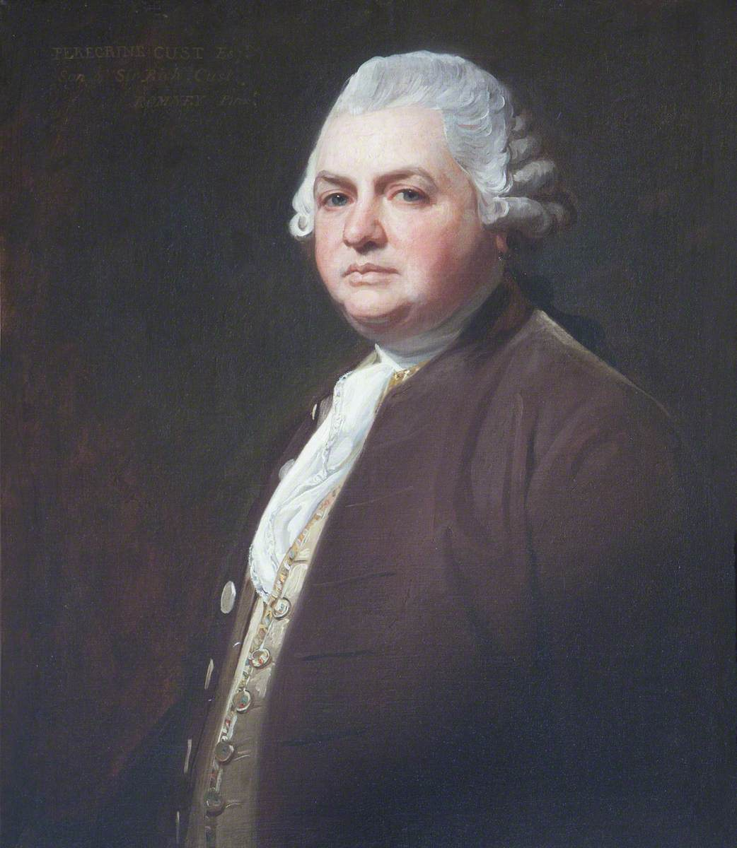 Portrait of Peregrine Cust (1723–1785), British merchant and politician.